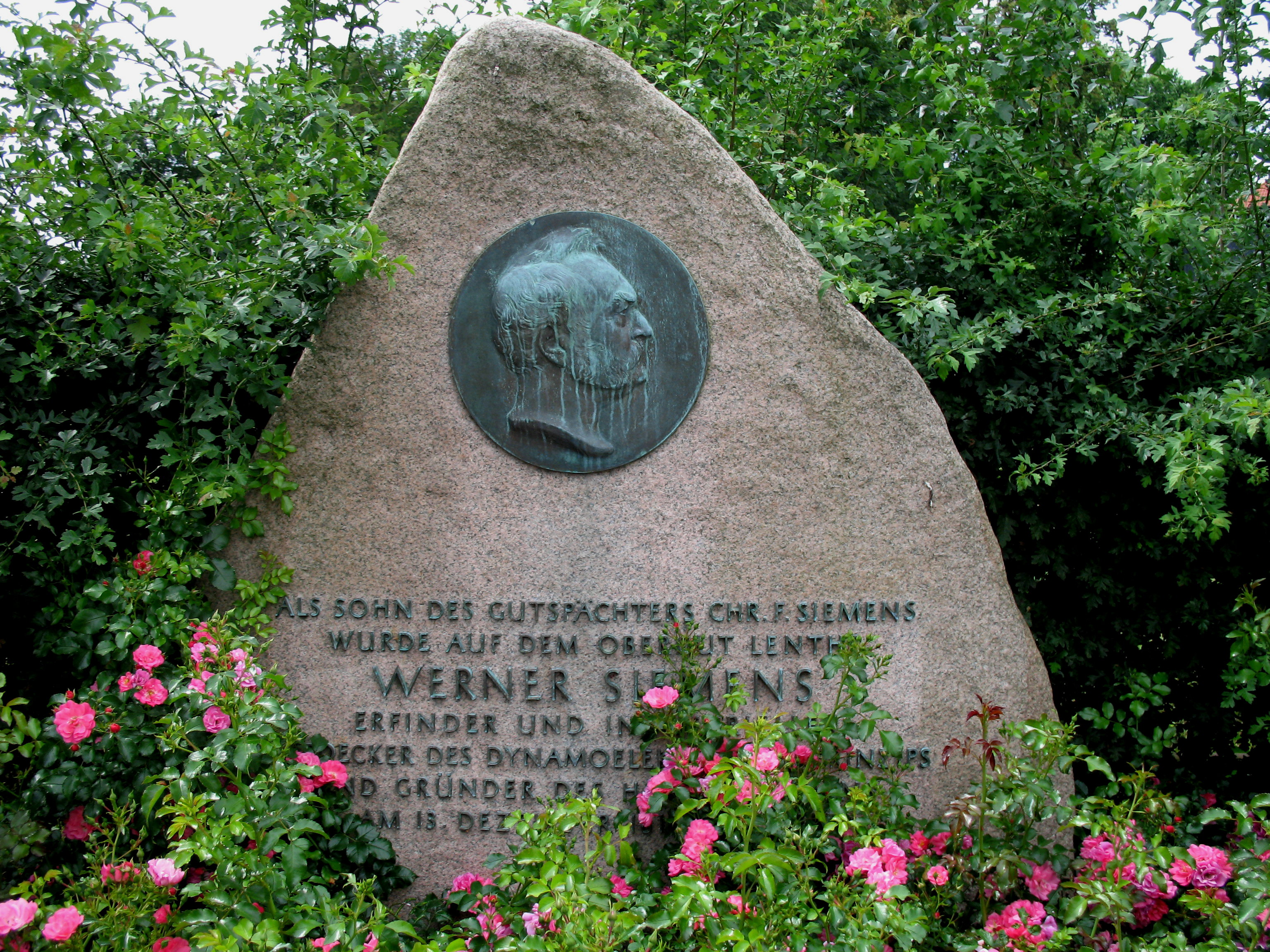 The Siemens memorial stone in Lenthe, Lower Saxony, Germany